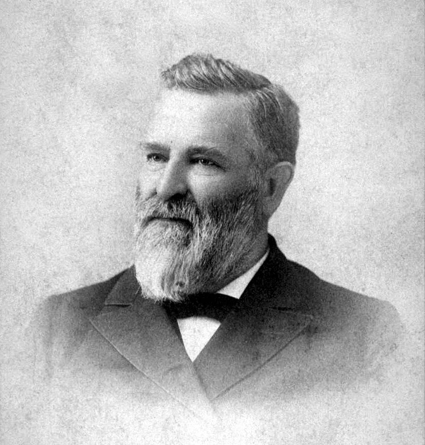 Robert Waterman, Governor of California 1887–91